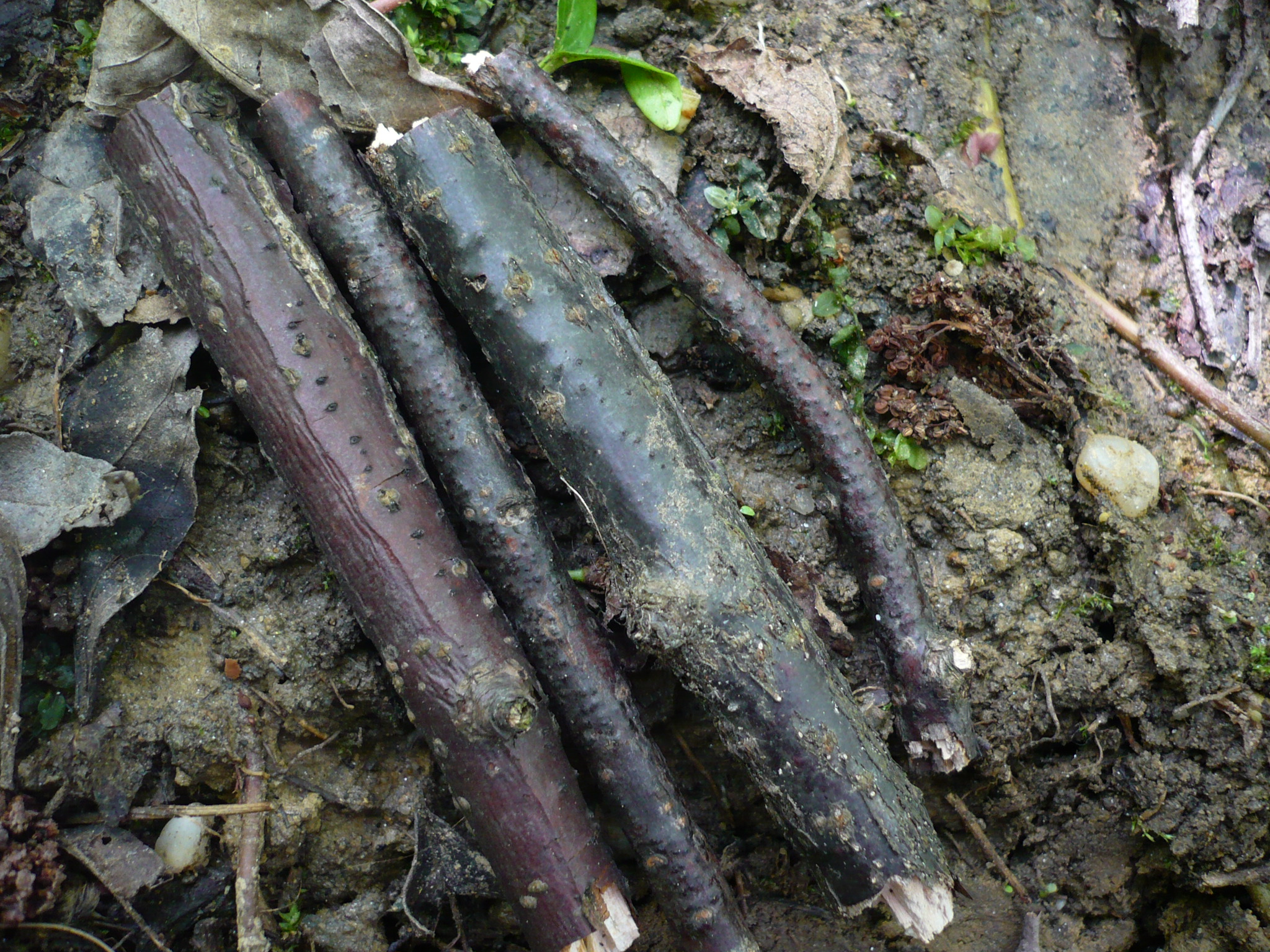 Pleurostoma vibratilis Image location: Eustachio-Gelände, Graz, Bezirk Graz, Styria, Austria [admin – Sat Aug 14 02:00:20 +0000 2010]: Changed location name from ‘Eustachio-Gelände,Graz,Bezirk Graz,Styria,Austria’ to ‘Eustachio-Gelände, Graz, Bezirk Graz, Styria, Austria’ Recognized by sight: also on the photo is DIAPORTHE PADI on Prunus padus too … this shrooms belong to the Pyrenomycetes Used references Based on microscopic features For more information about this, see the observation page at Mushroom Observer.